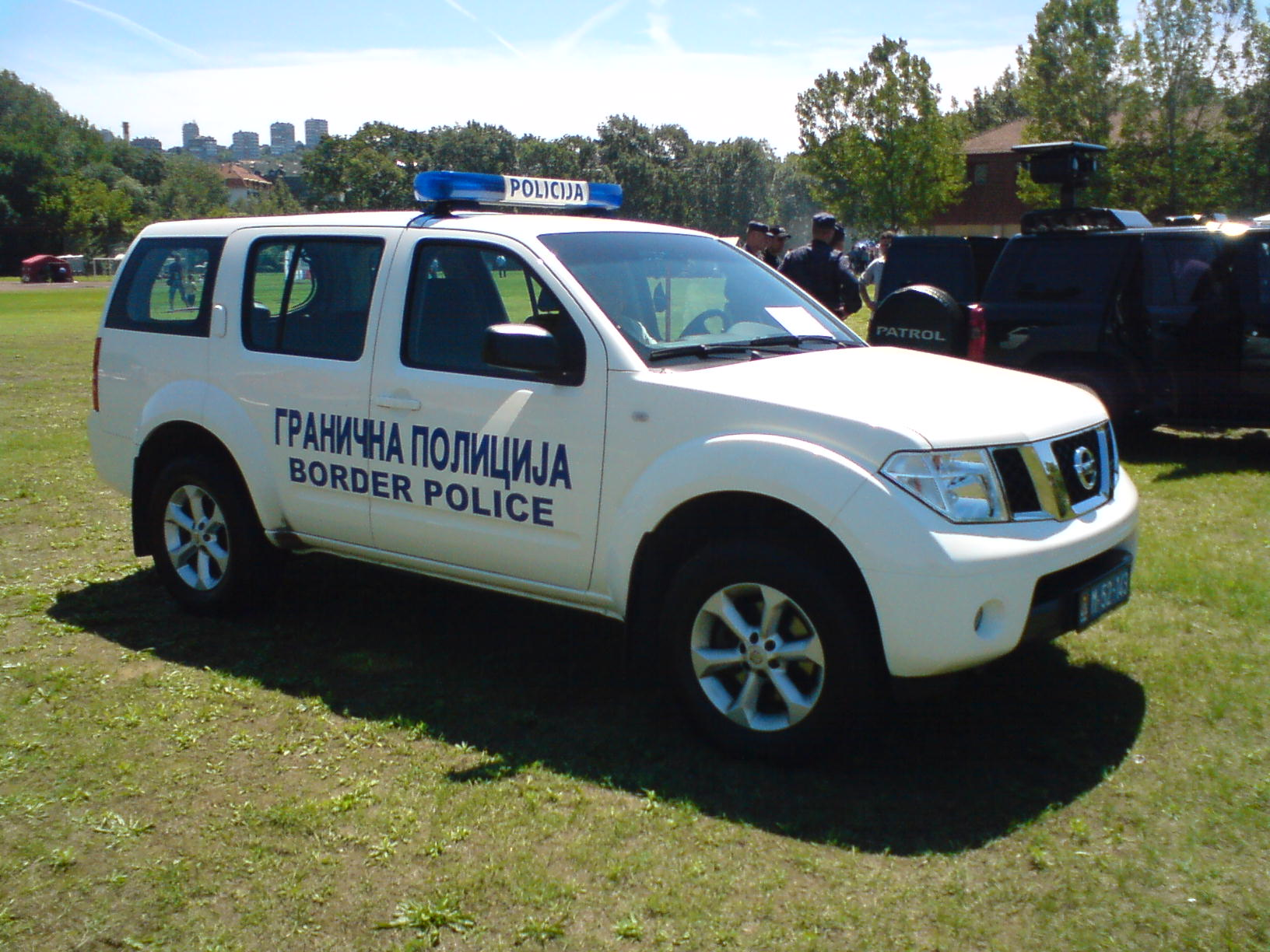 Nissan Pathfinder of Serbian Border Police